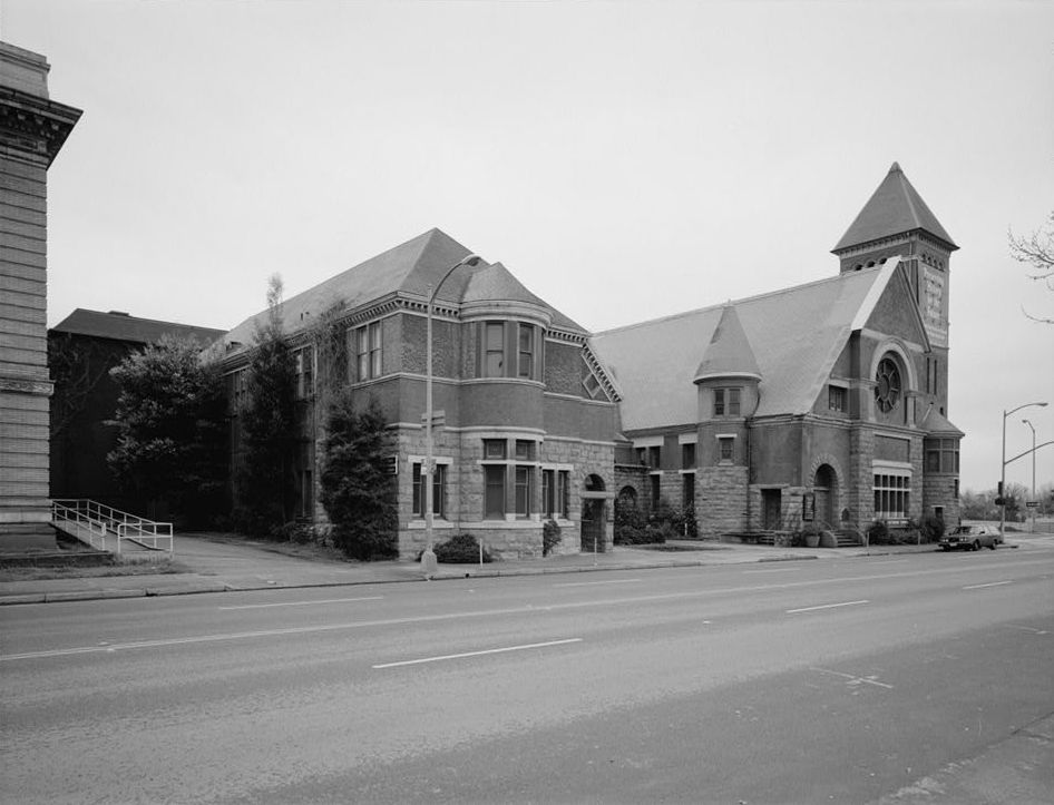 First Unitarian Church of Oakland (built 1891), located at 685 14th Street in western Downtown Oakland, California. Image: HABS—Historic American Buildings Survey in Oakland.